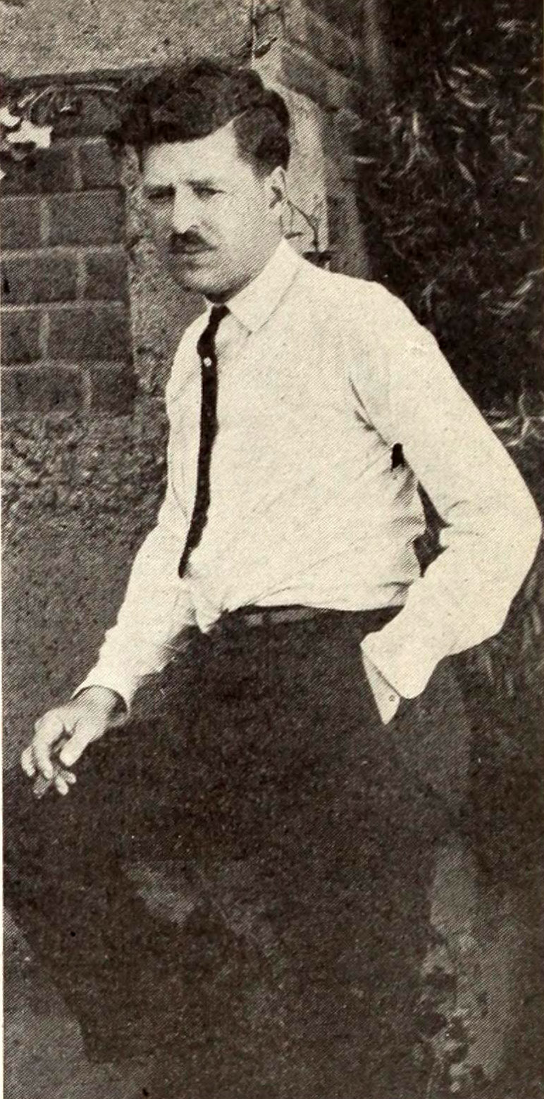 Promotional photo